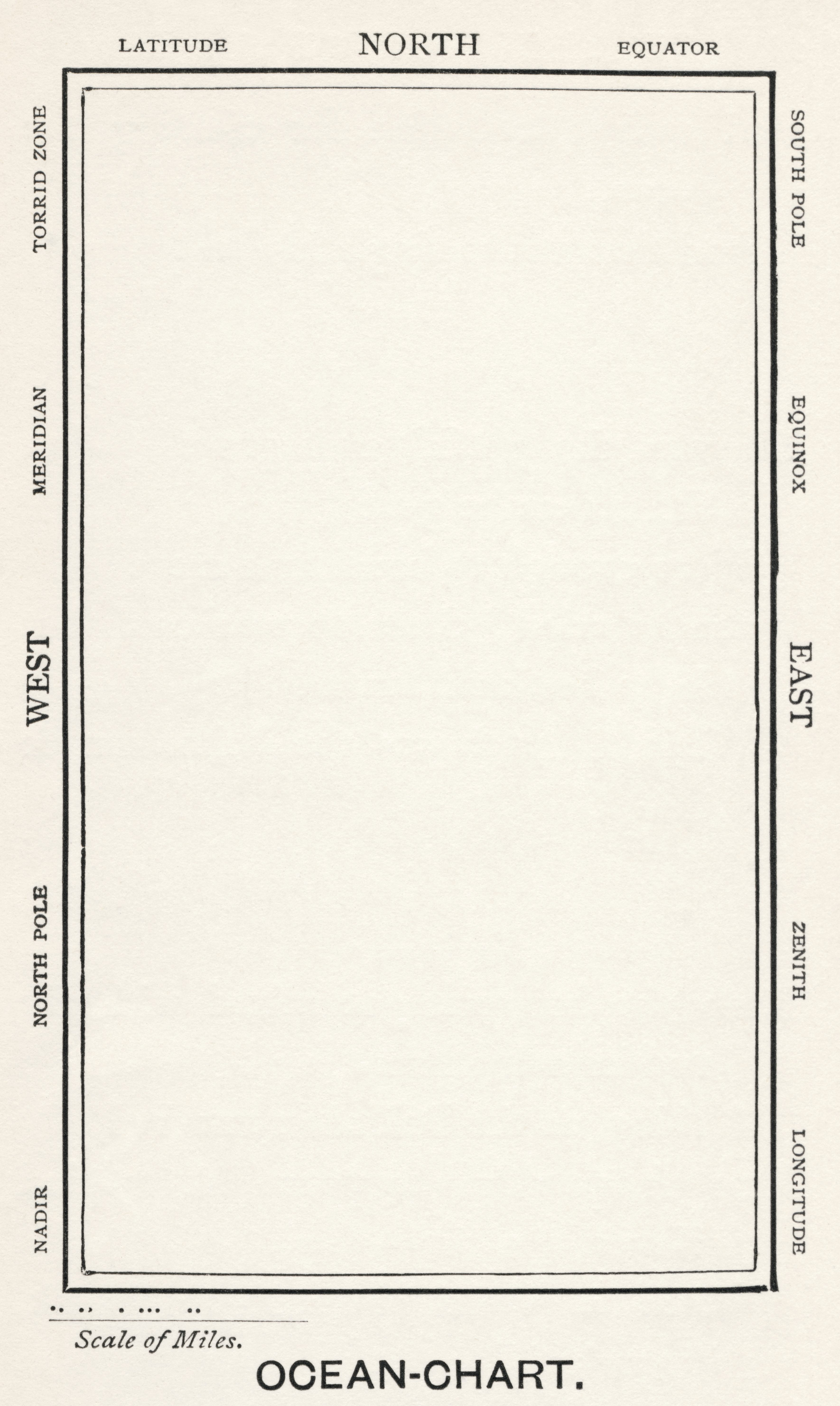 Fourth of Henry Holiday's original ilustrations to "The Hunting of the Snark" by Lewis Carroll. From Fit the Second: The Bellman's Speech. This shows the Bellman's map, which, being blank, is equally useful everywhere, unlike normal maps: "Other maps are such shapes, with their islands and capes! But we've got our brave Captain to thank" (So the crew would protest) "that he's brought us the best-- A perfect and absolute blank!"